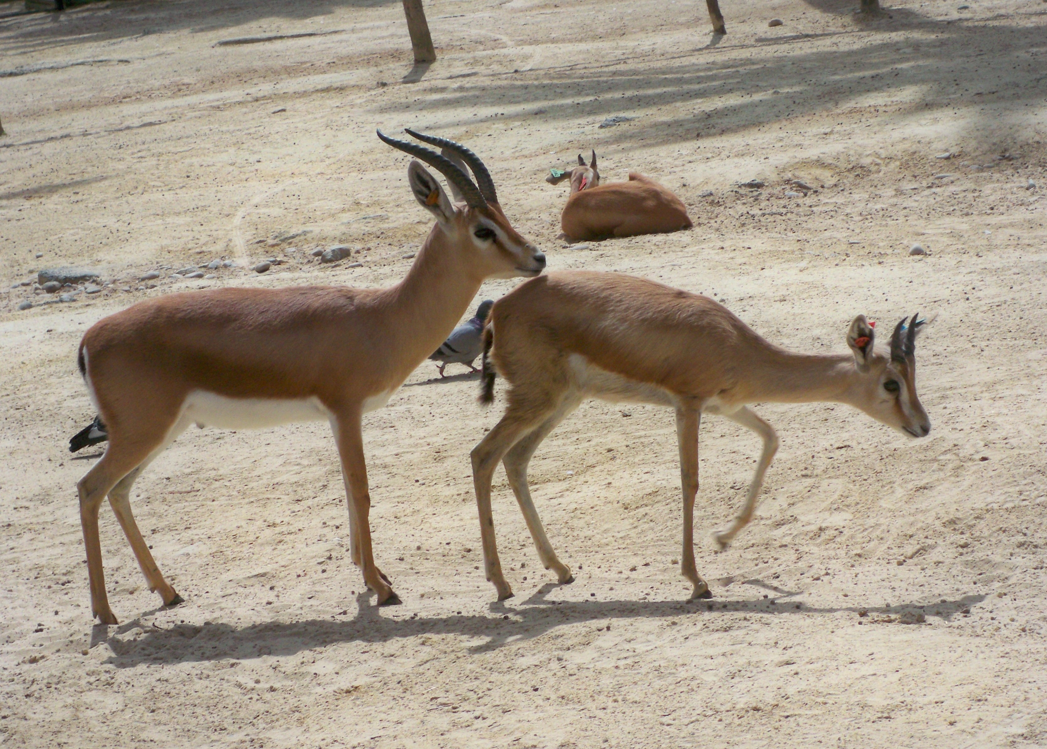 Gazella dorcas at Jerez de la Frontera Zoo.